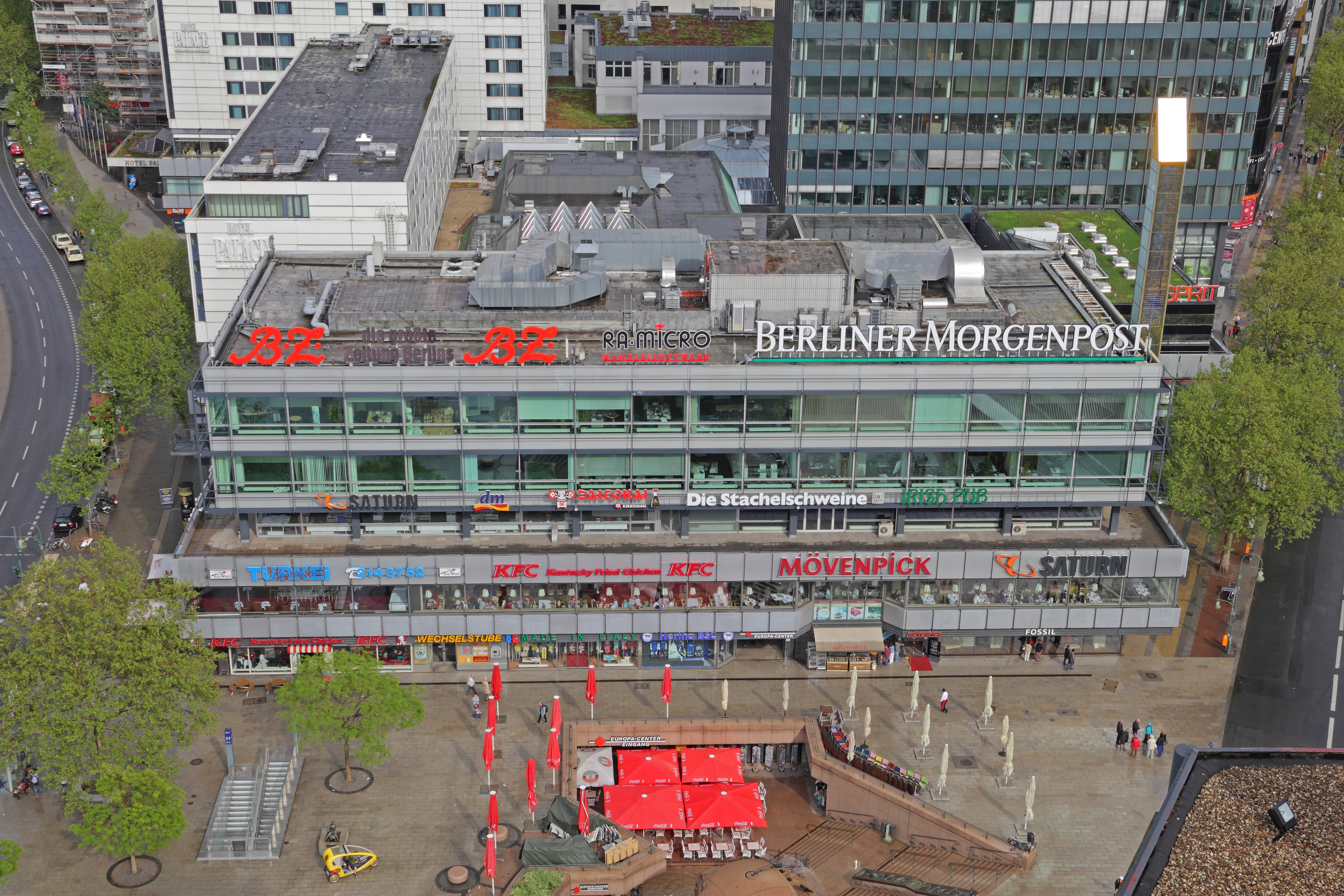 Views from the scaffolds of the Kaiser Wilhelm Memory Church. Berlin-Charlottenburg.